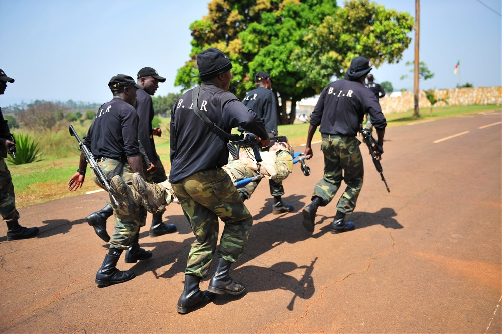 3rd Bataillon d'Intervention Rapide or Rapid Intervention Battalion (BIR) soldiers litter-carry a simulated victim during Exercise Silent Warrior 2013 in Bamenda, Cameroon Jan. 29, 2013. These military training engagements are interoperability activities that hone fundamental skills necessary to achieve cooperation and security. (Photo by Air Force Master Sgt. Larry W. Carpenter Jr.)